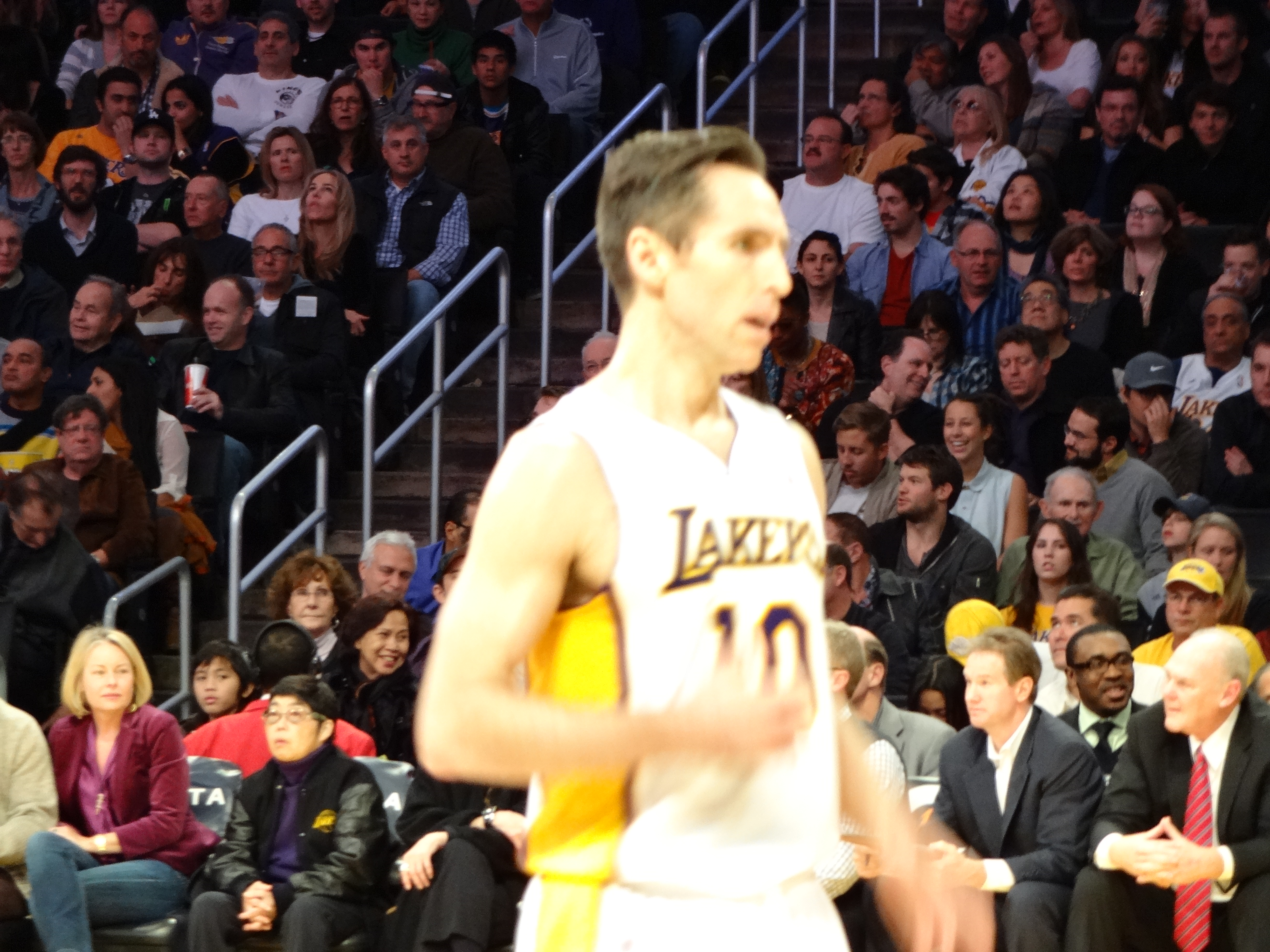 Los Angeles Lakers vs Denver Nuggets at the Staples Center. Steve Nash.